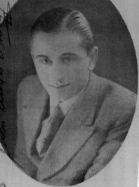 Juan Carlos Chiappe- actor y escritor argentino